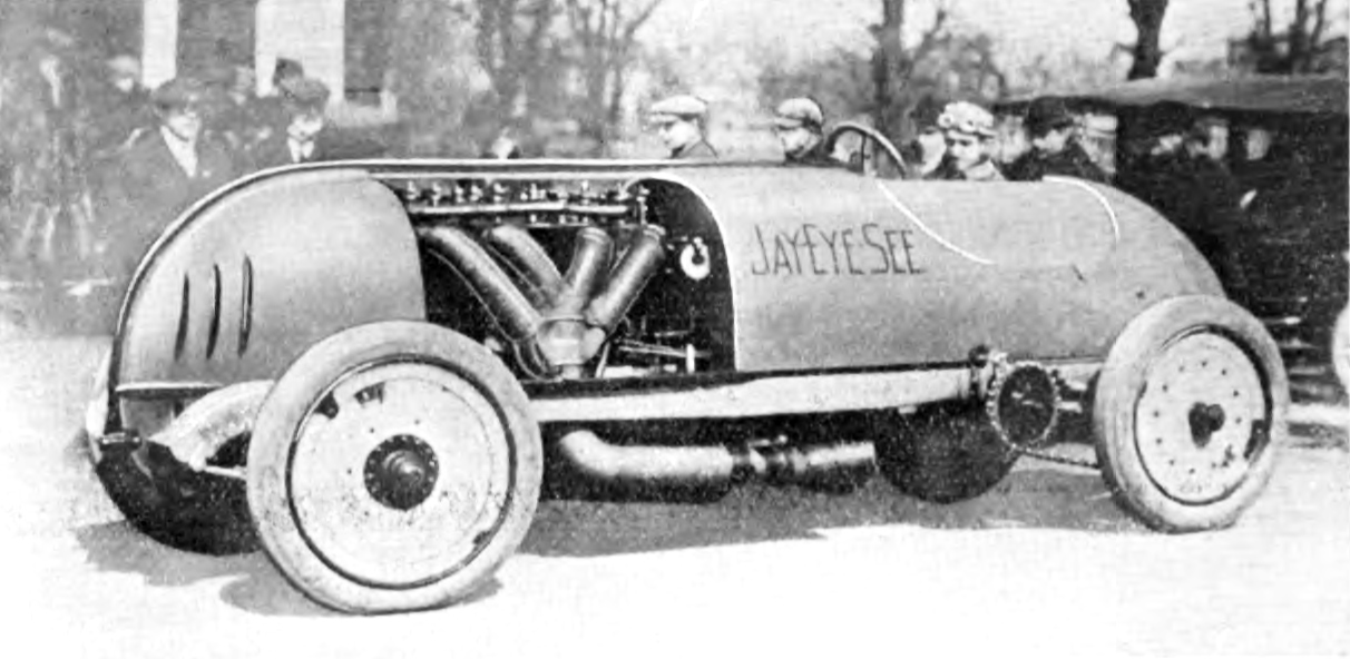 The Jay-Eye-See racecar was built around 1912. It was the namesake of a racehorse that was in turn named for Jerome Increase Case (1819–1891) founder of J. I. Case corporation, a major manufacturer of agricultural equipment. Driver pictured is Louis Disbrow (1888-1939)